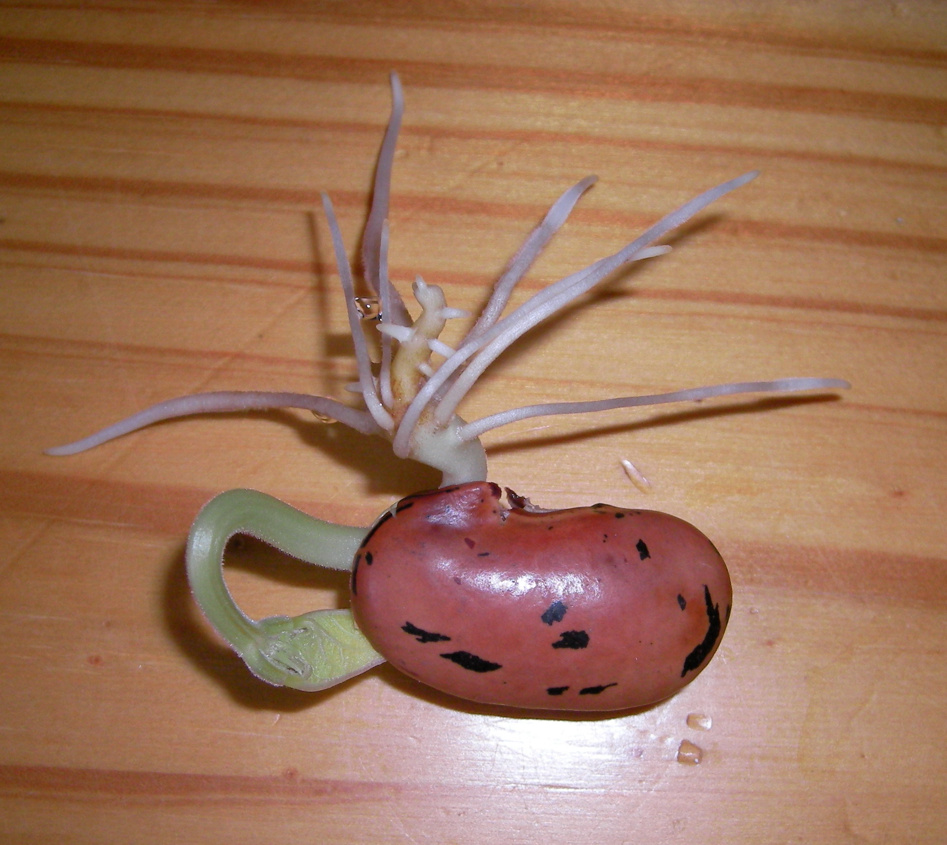 Phaseolus coccineus